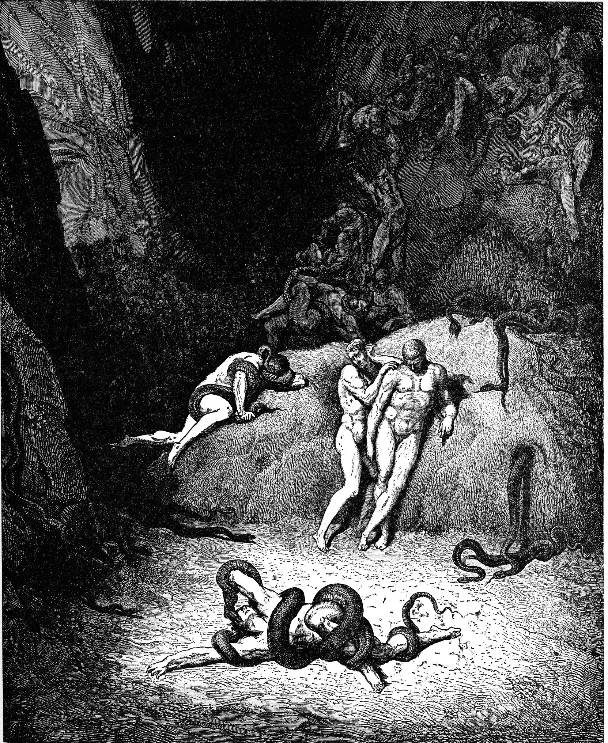 High resolution scan of engraving by Gustave Doré illustrating Canto XXV of Divine Comedy, Inferno, by Dante Alighieri. Caption: Agnello changing into a Serpent